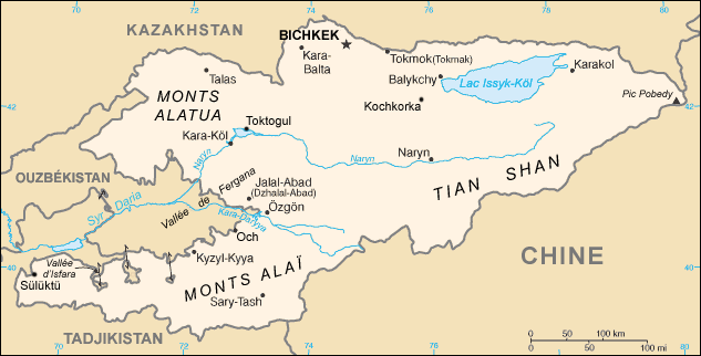 Map in French of Kyrgyzstan